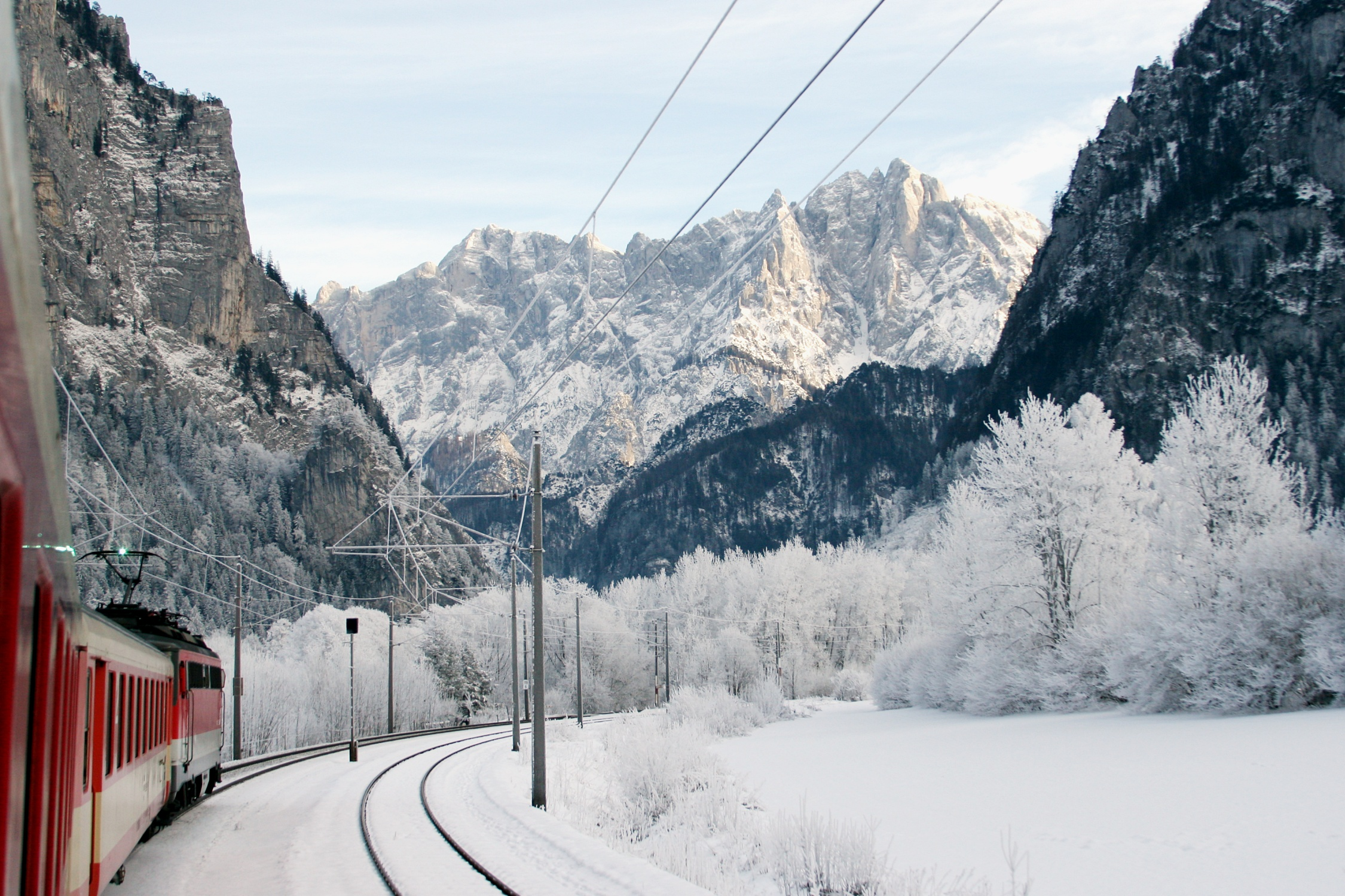 View from a train in Gesäuse Eingang station to the Gesäuse mountains.